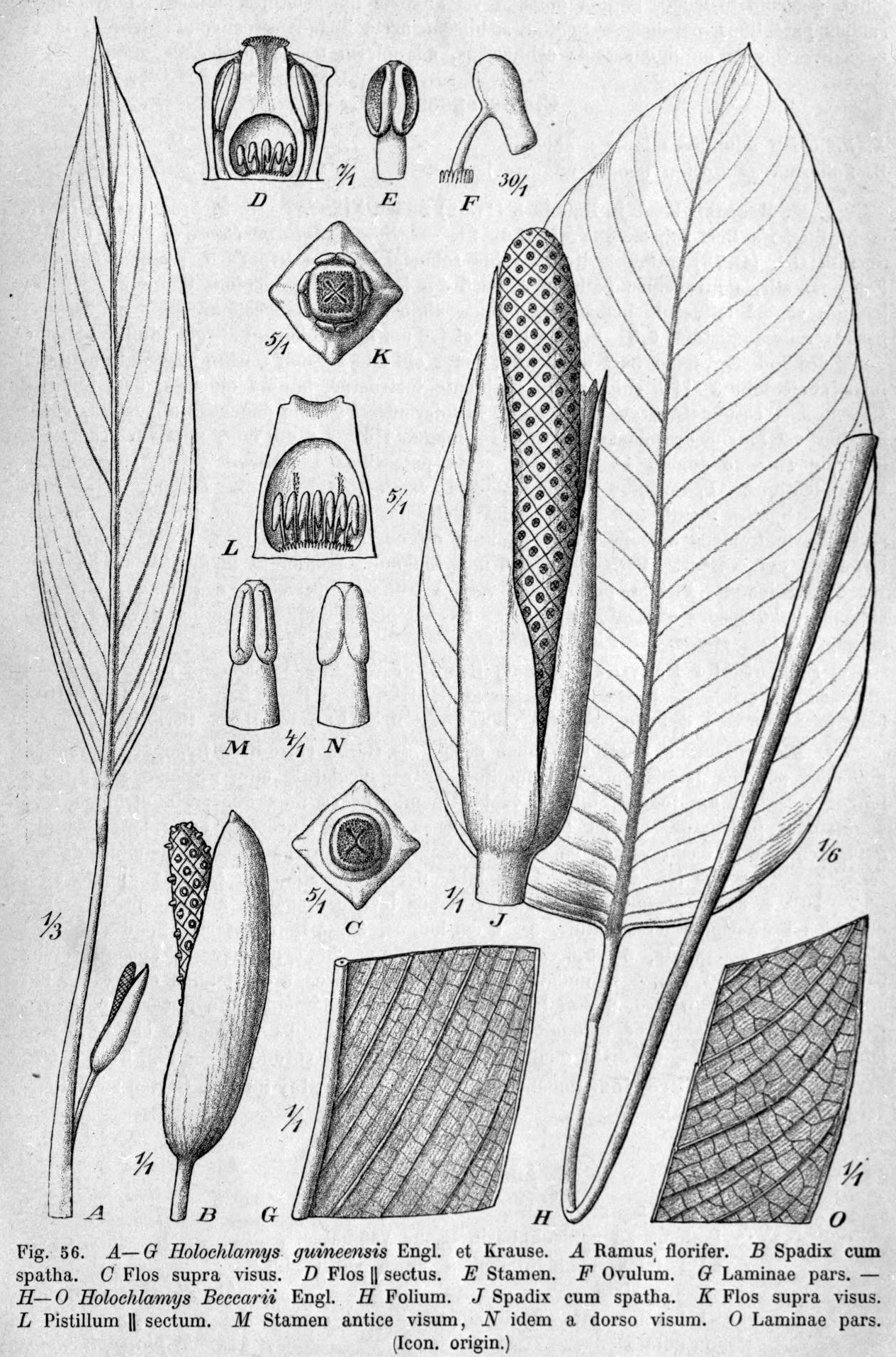 Holochlamys baccarii botanical drawing